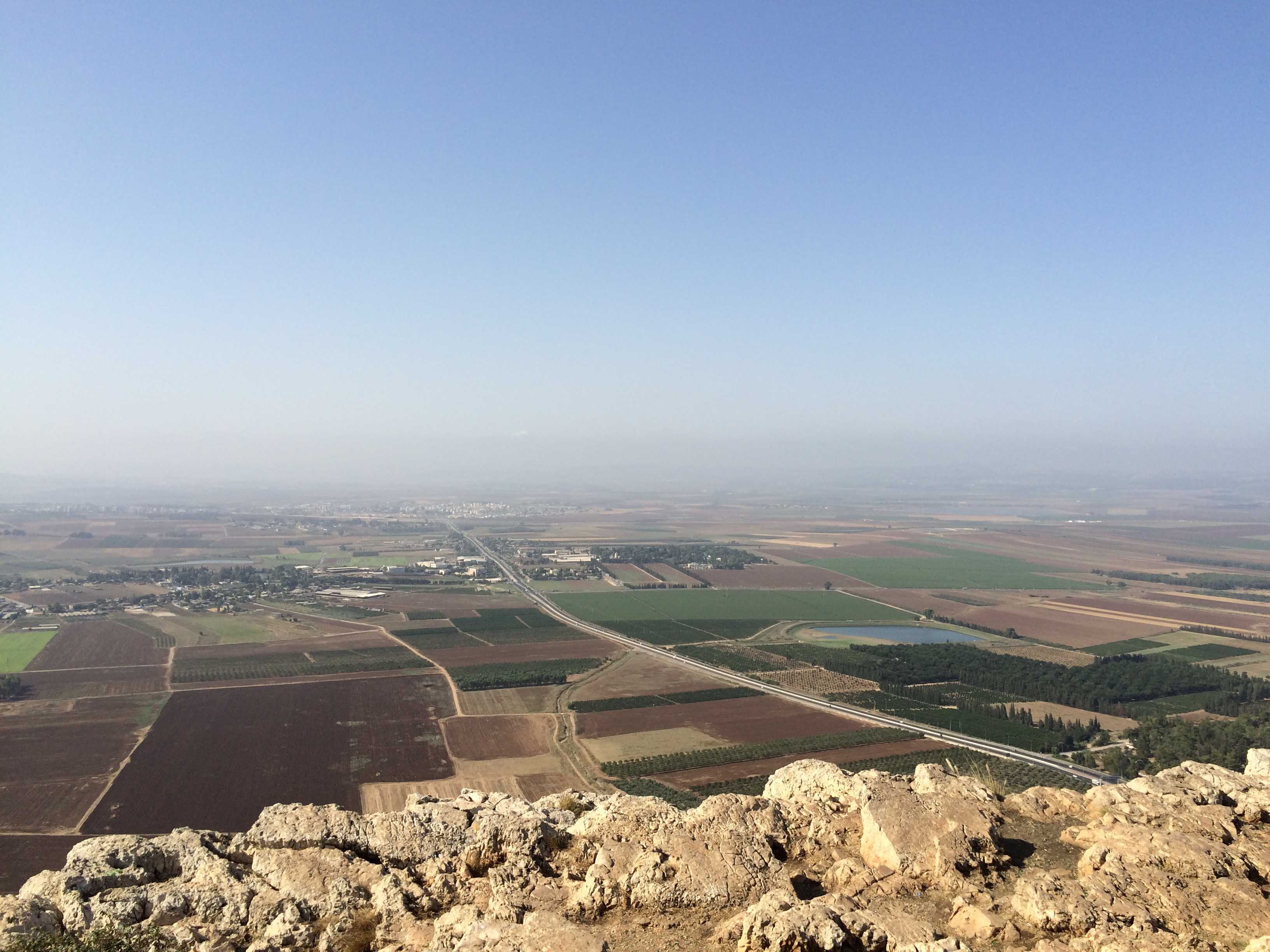 View from Mount Precipice, near Nazareth, Israel